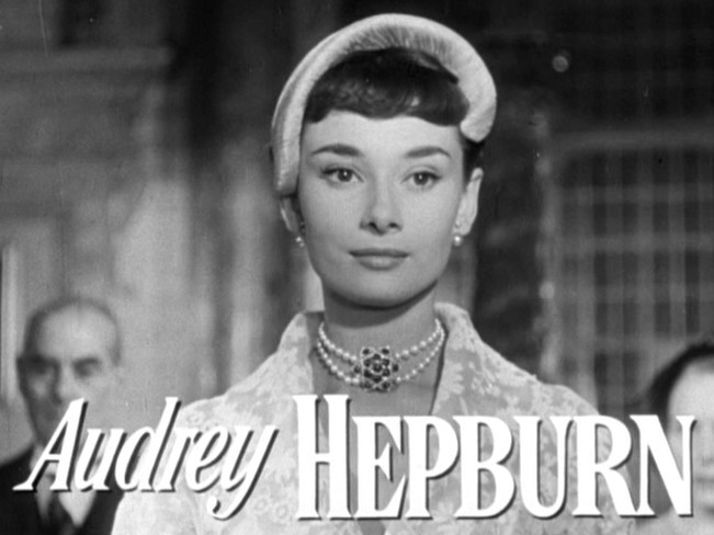 Cropped screenshot of Audrey Hepburn from the trailer for the film Roman Holiday.